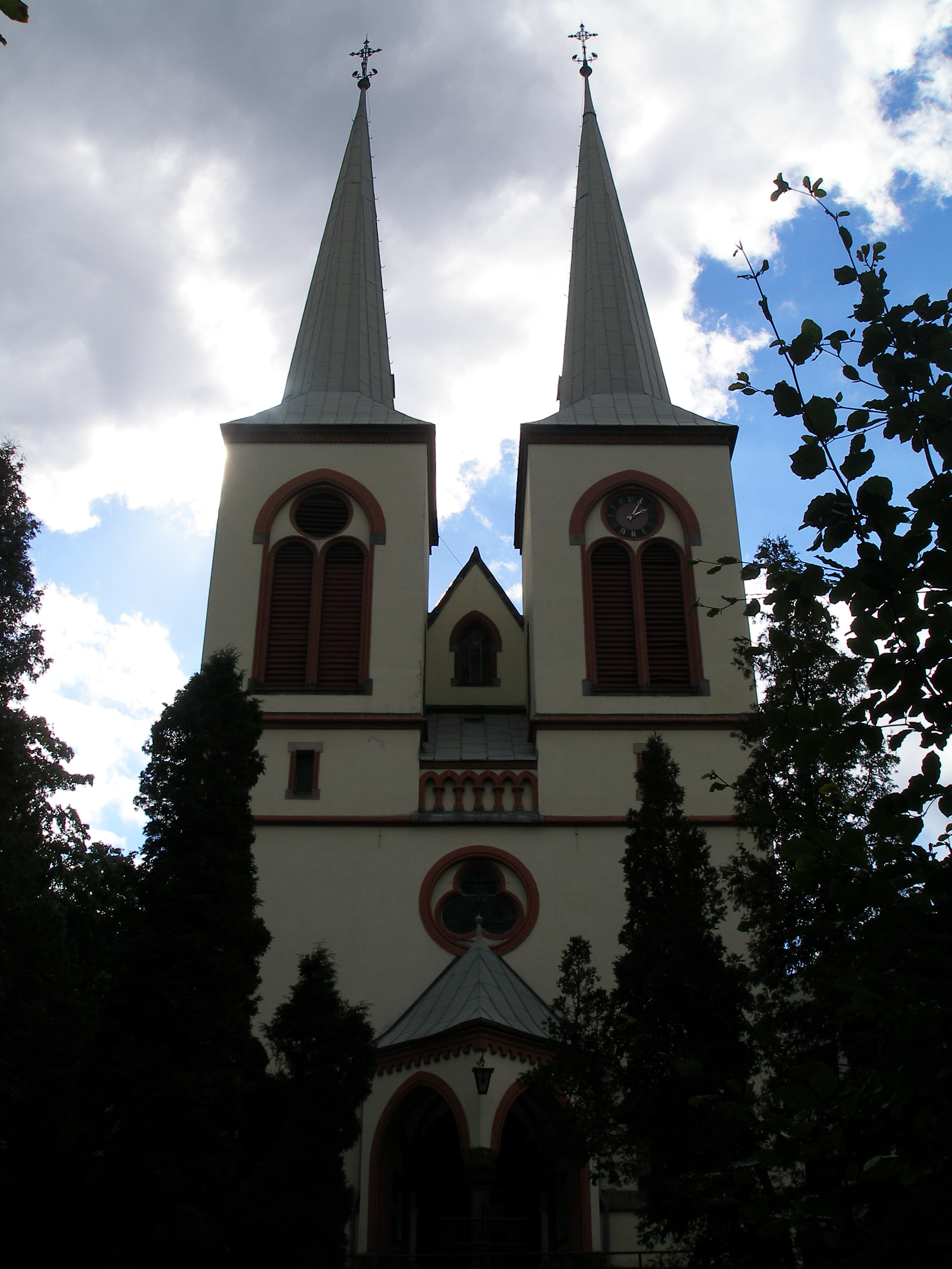 Church of saint Josef, Świeradów-Zdrój, Poland